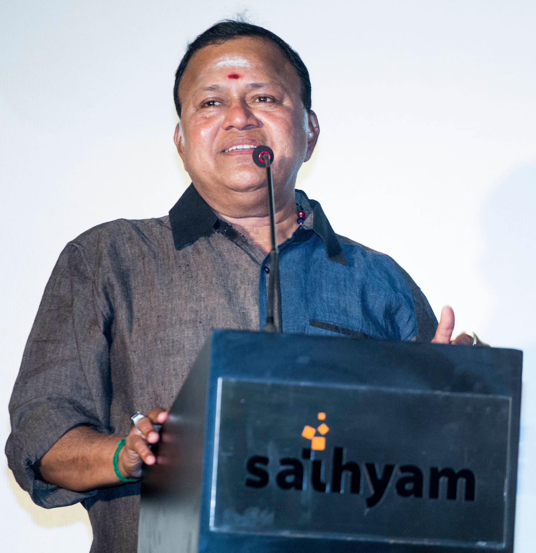 Radha Ravi at Jil Jung Juk Press Meet